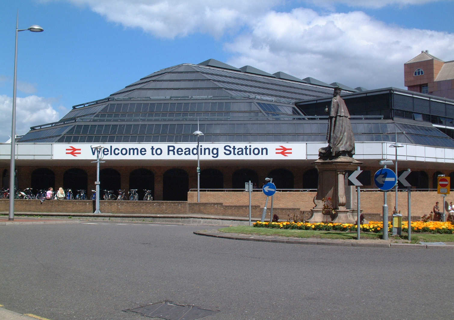 The front of Reading railway station.